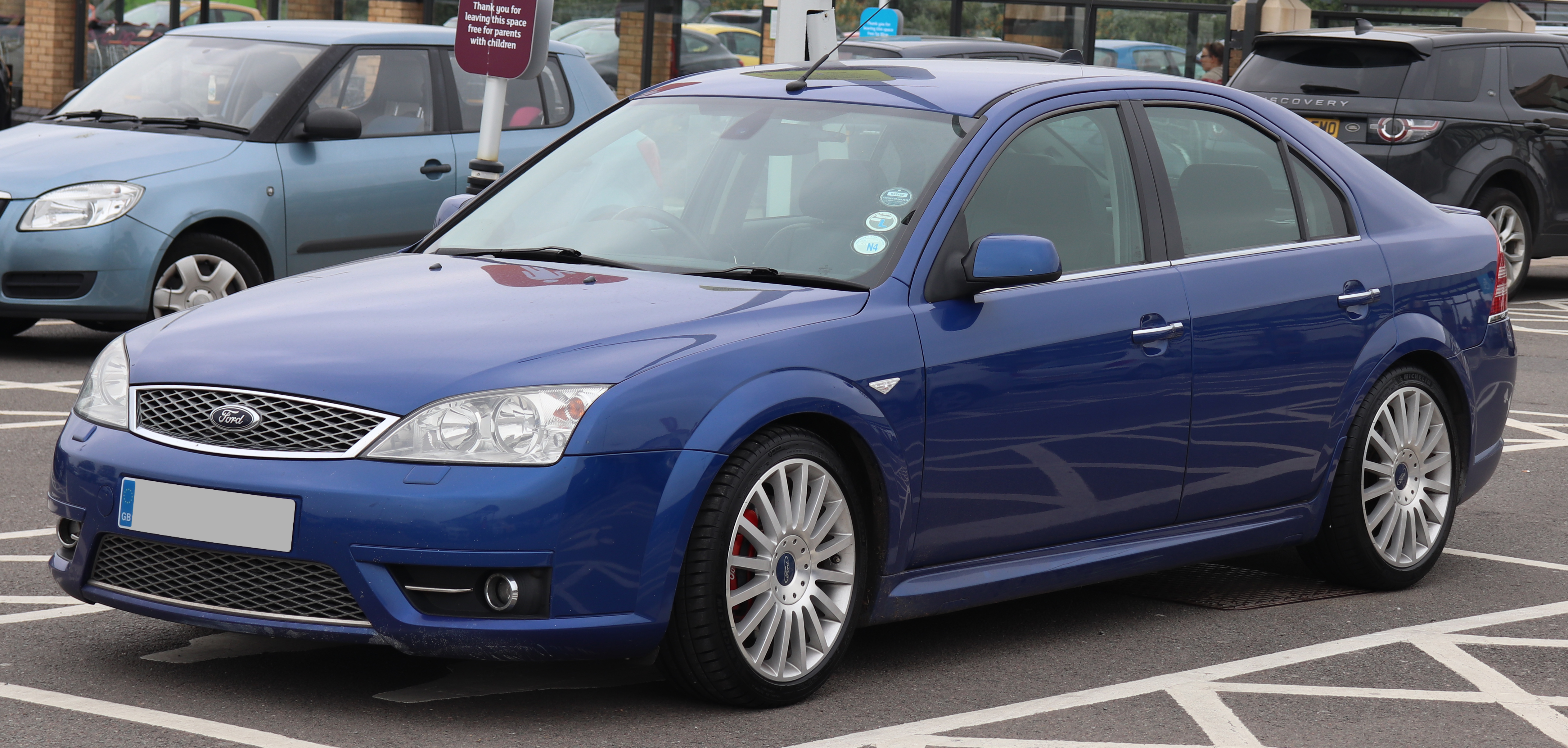 2006 Ford Mondeo ST220 TDCi Front Taken in Leamington Spa